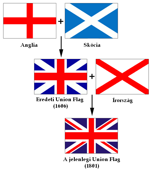 Union Jack